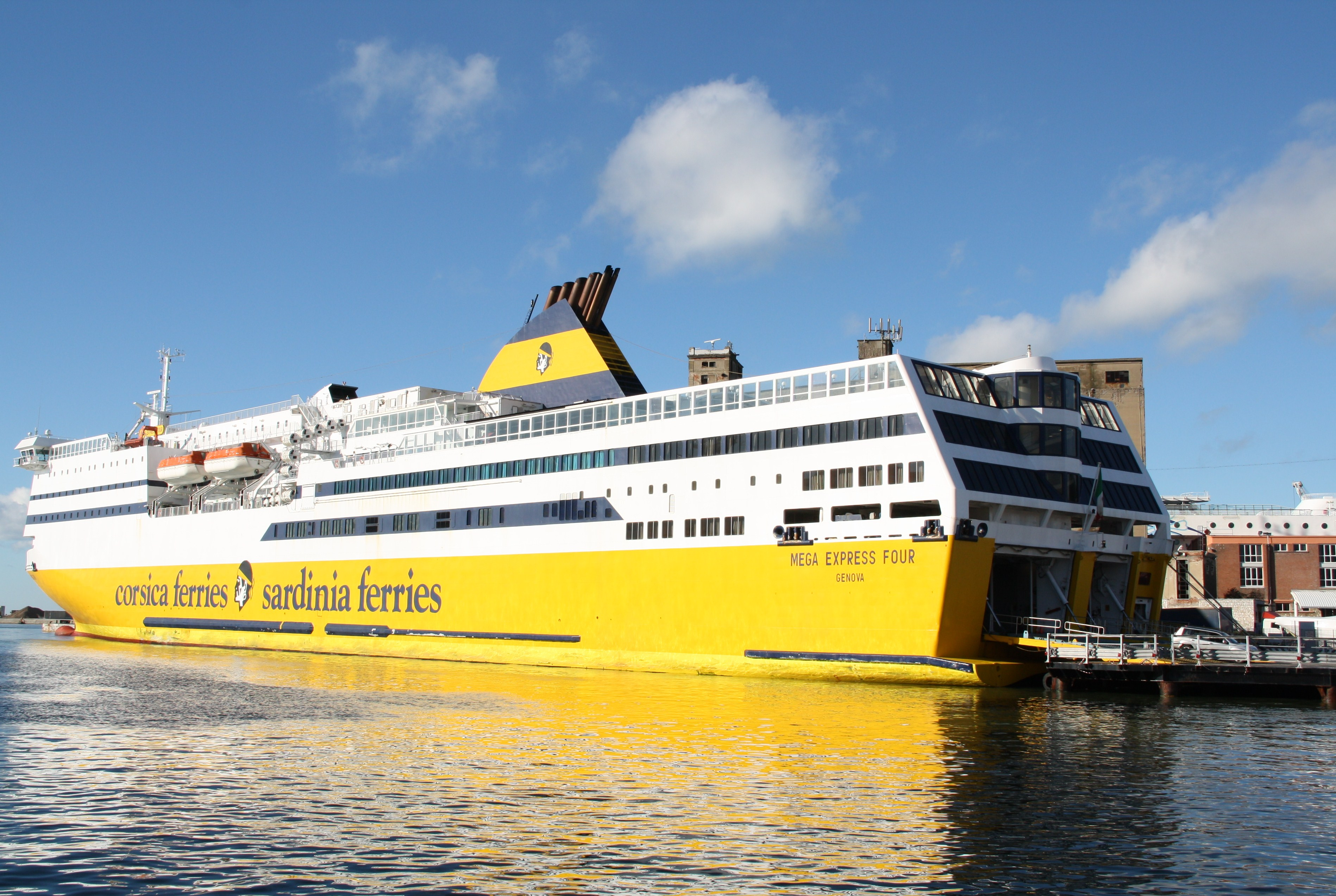 Italy, Port of Livorno. The Corsica Ferries fast ferry MS Mega Express Four berthed at “Sgarallino” wharf of "Porto Mediceo".